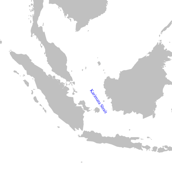 Karimata Strait